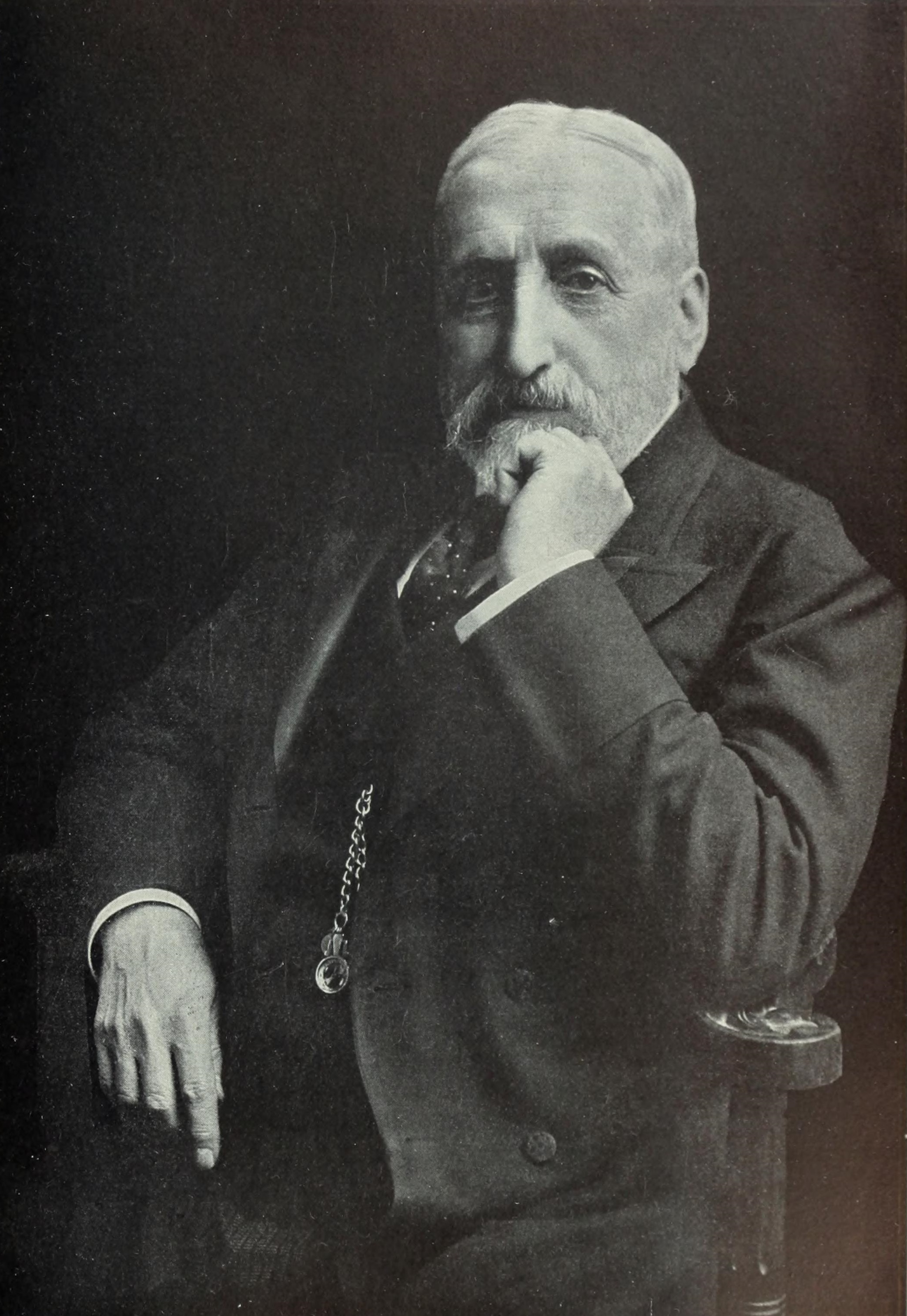 Portrait of Donald Mackenzie Wallace